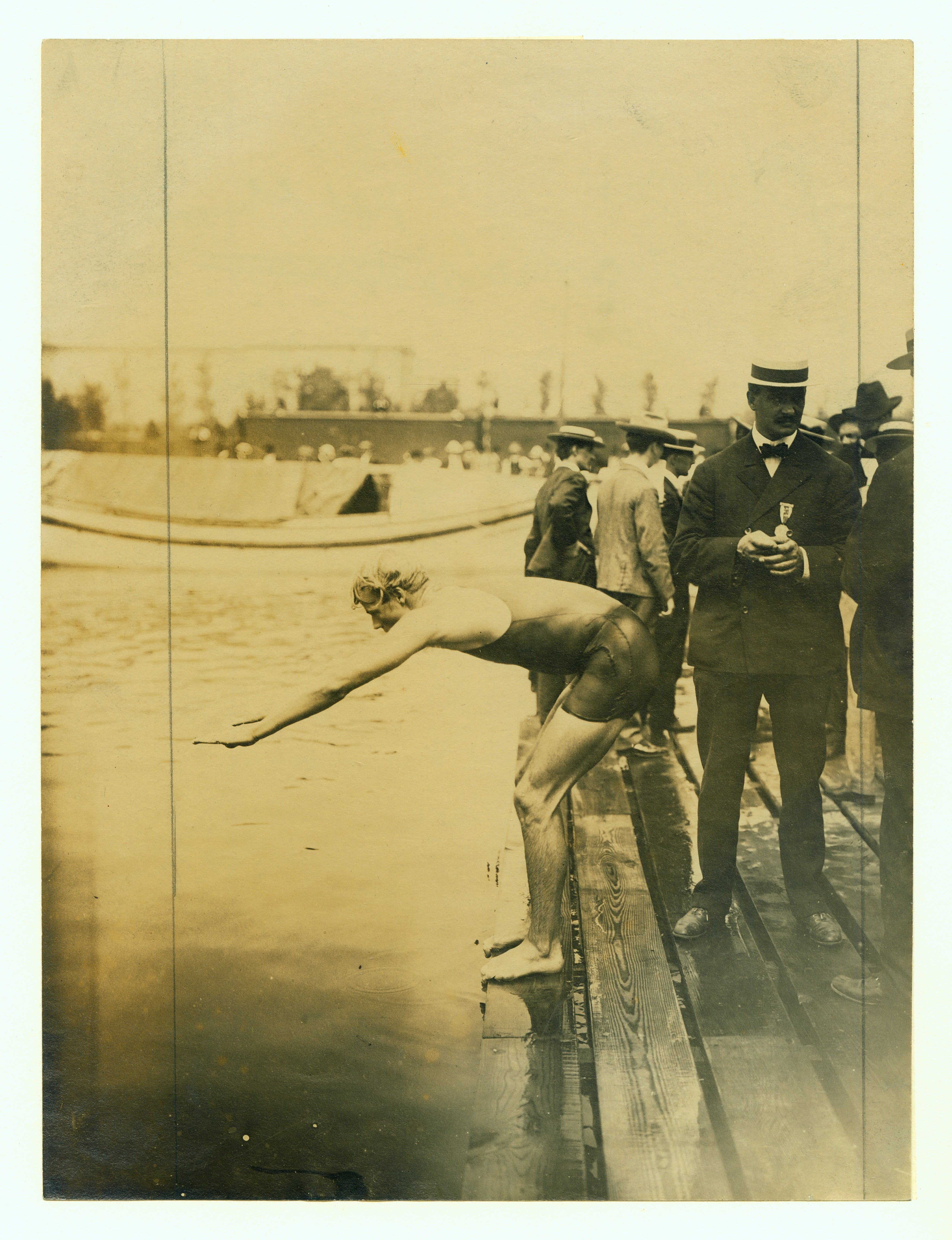 Vertical photograph of a swimmer poised to begin, standing on the edge of the dock with his arms outstretched. There are men in street clothes behind him who look like judges.Title: 1904 Olympics: 440 yard Olympic championship, Daniels of the New York Athletic Club starting.